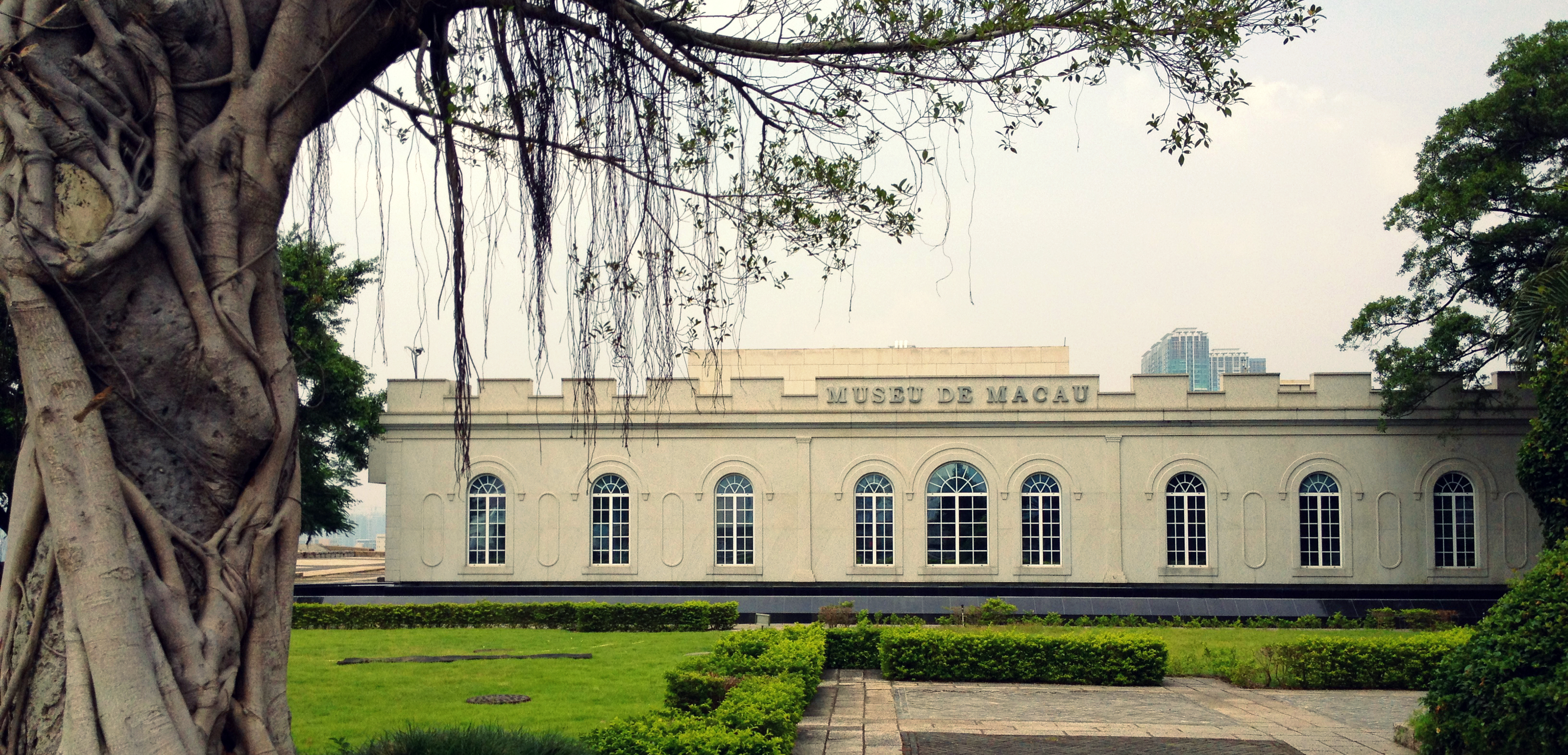 Picture Of The Macau Museum